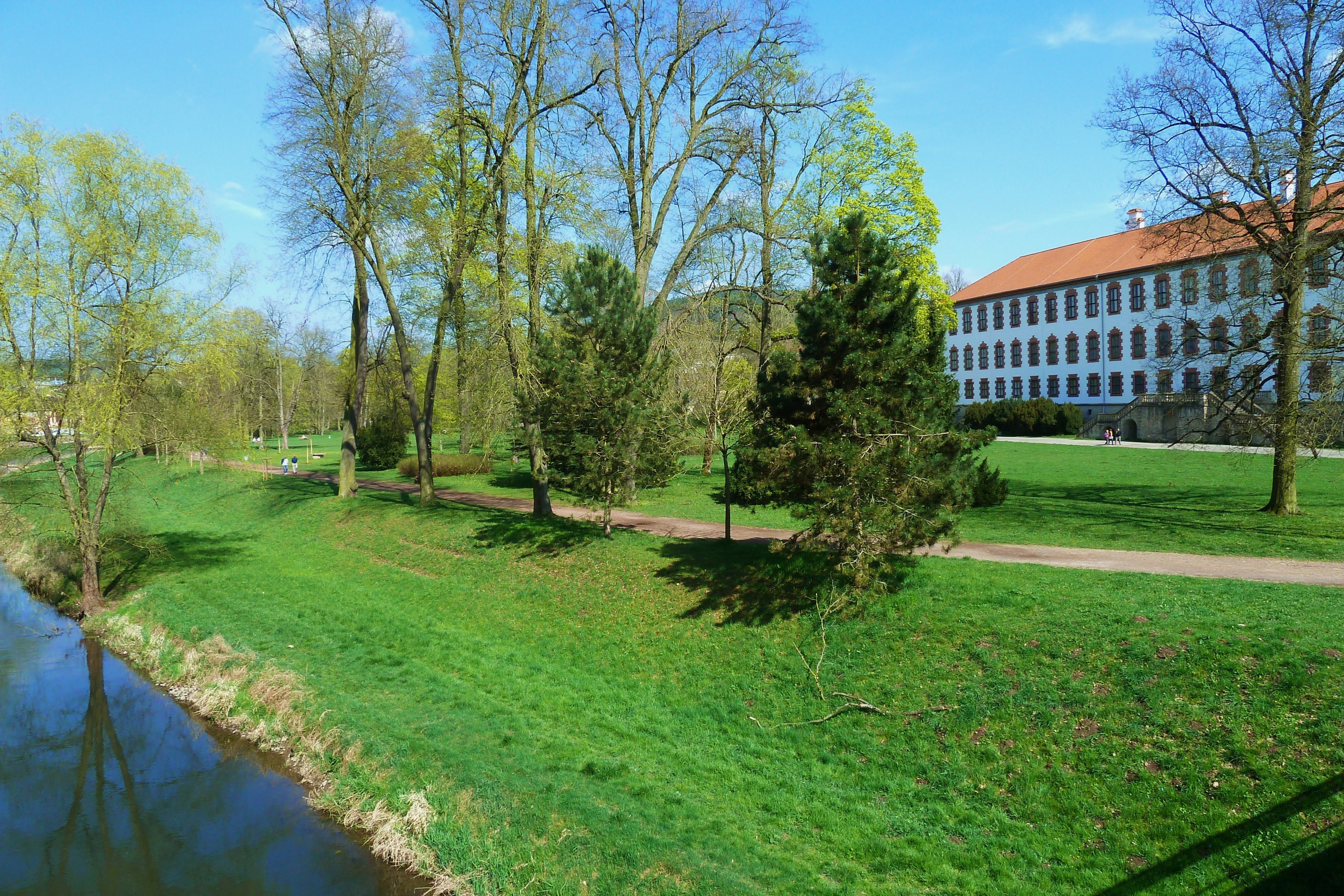 Public Garden in City Meiningen, Germany